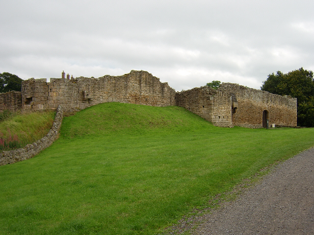 Aydon Castle